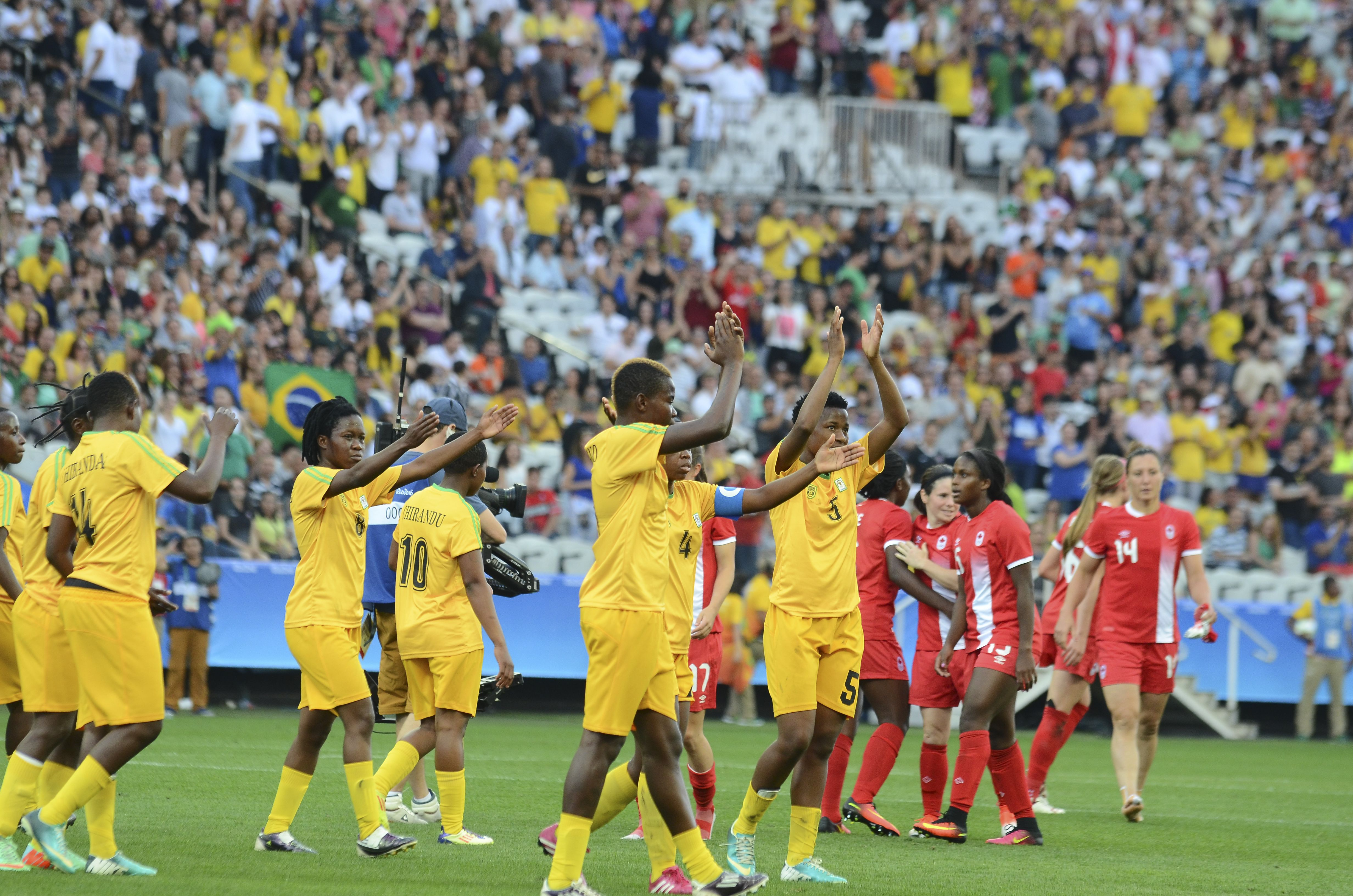 Canada wins Zimbabwe in Rio Olympics